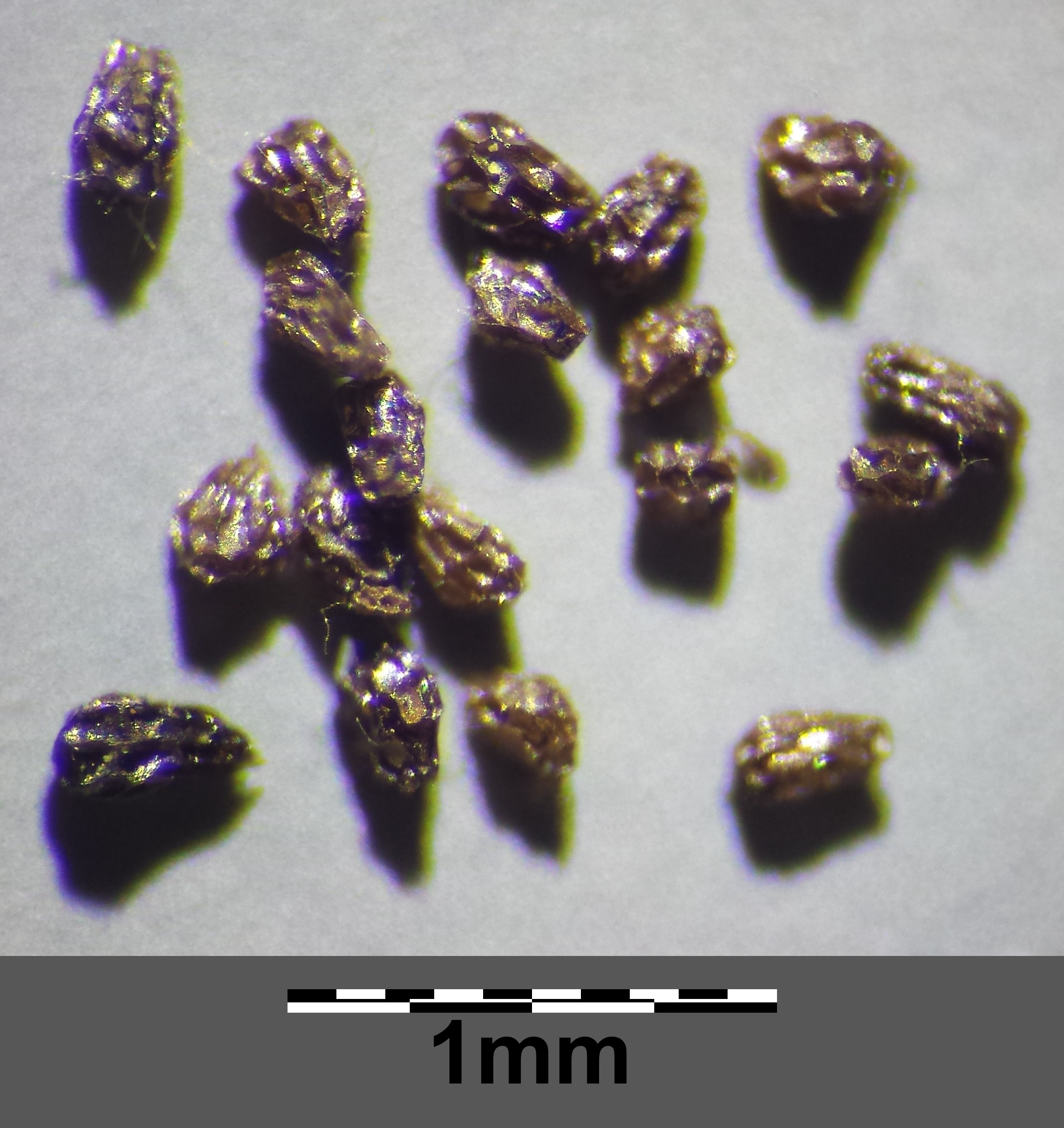 Seeds Taxonym: Orobanche coerulescens ss Fischer et al. EfÖLS 2008 ISBN 978-3-85474-187-9 Location: Latschenberg near Altenmarkt im Thale, district Hollabrunn, Lower Austria - ca. 350 m a.s.l. (leg. 2017-04-15) Habitat: sandy area